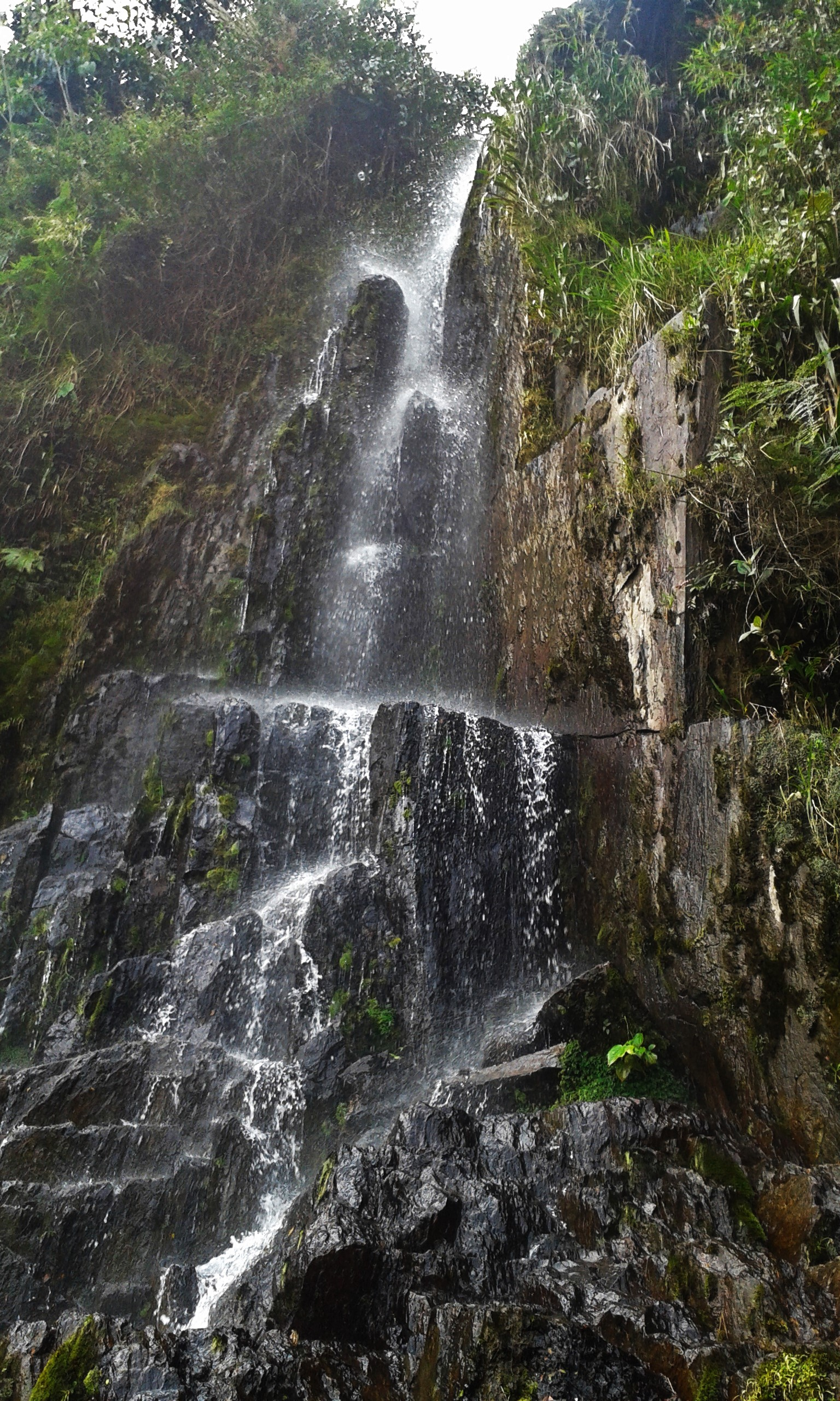 Quebrada Los Cristos, Calvario De Palenque, Santa Rosa de Osos